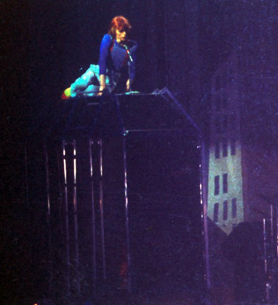 05 July 1974 - Charlotte Park Centre